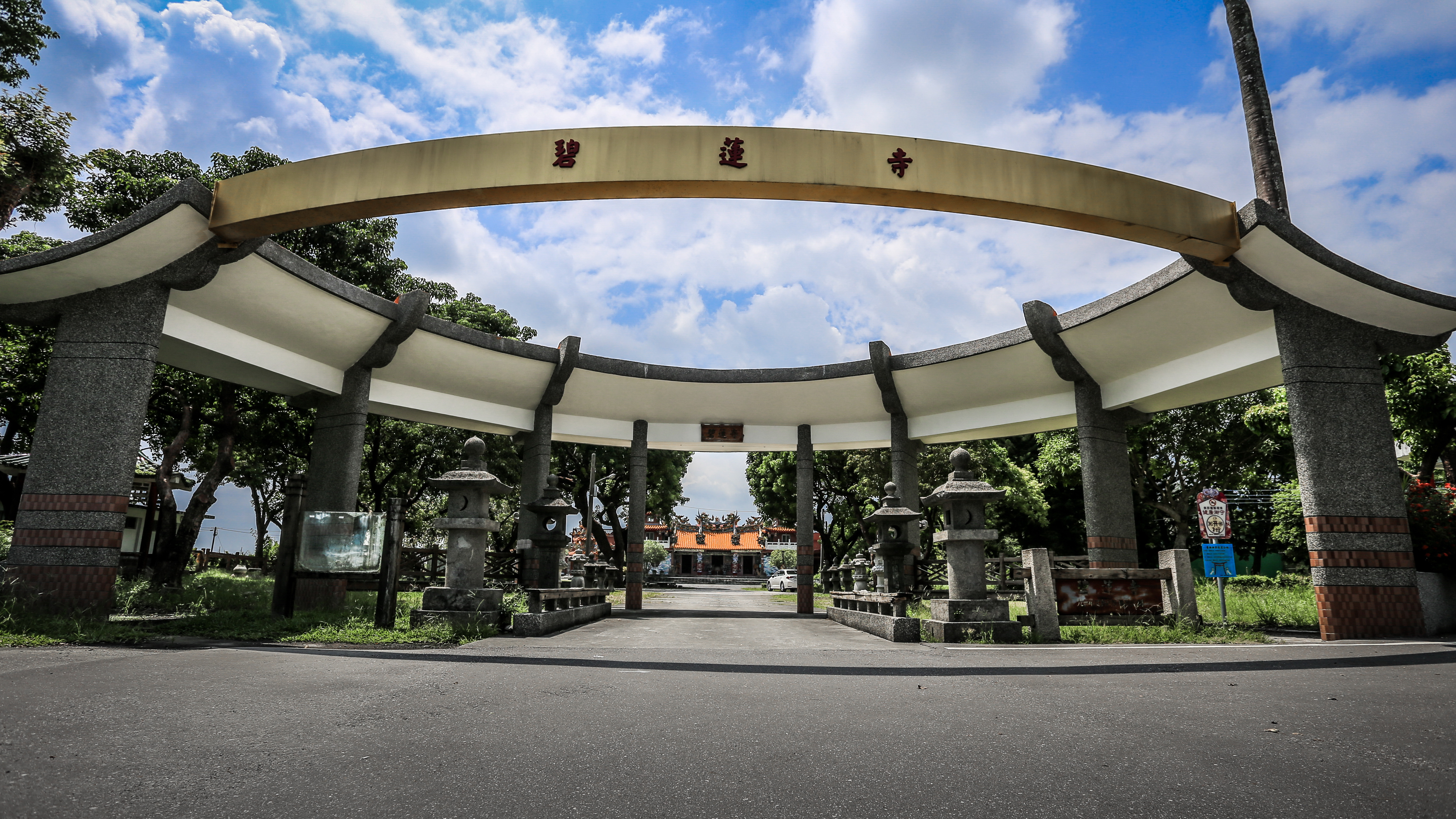 The Santo and Relics of Fengtian Shinto Shrine (Bilian Temple), Shoufeng Township, Hualien County, Taiwan.